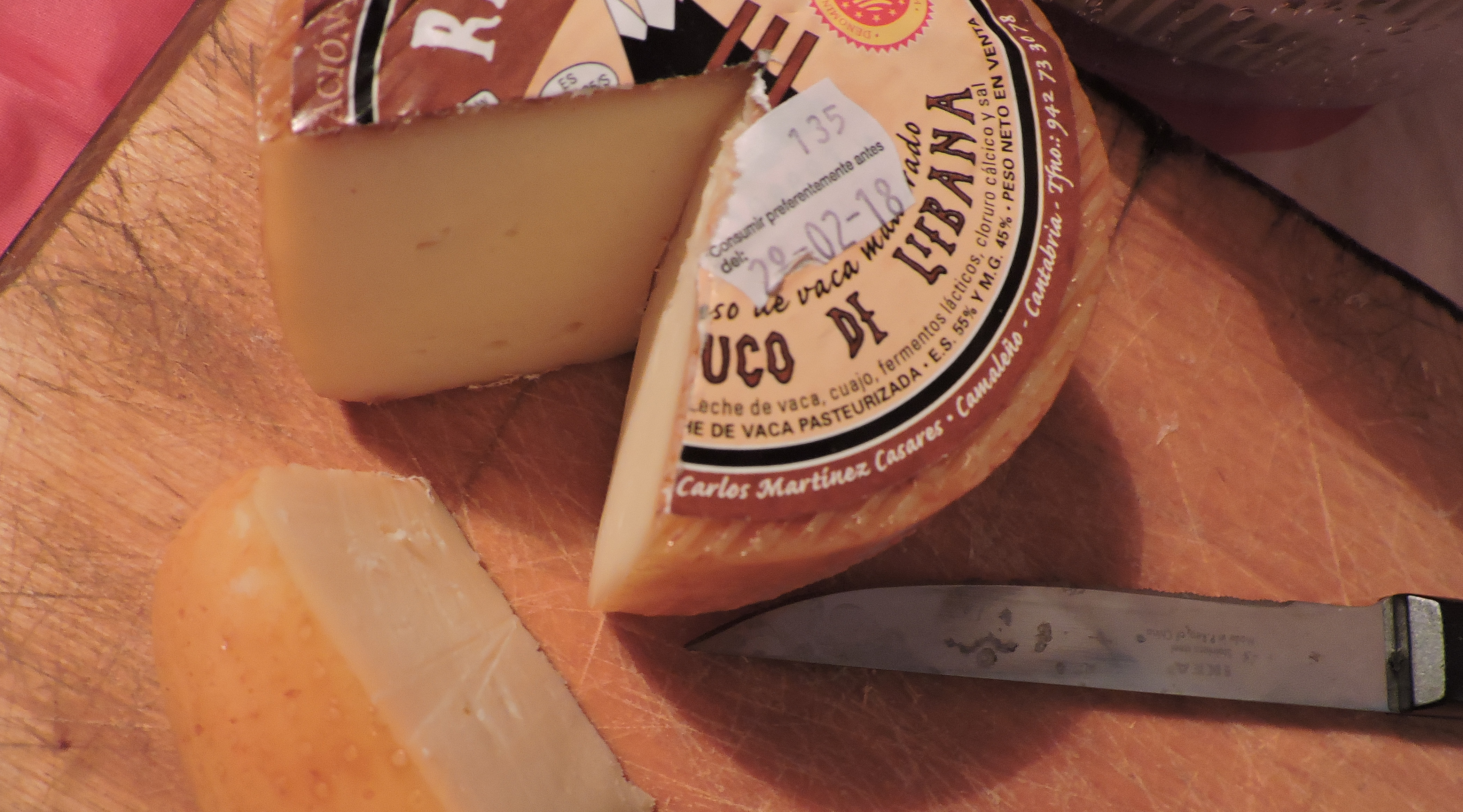 Quesuco de Liébana (smocked Liébana cheese, Cantabria, Spain)